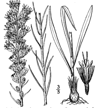 Botanical illustration of Liatris spicata from 1913.